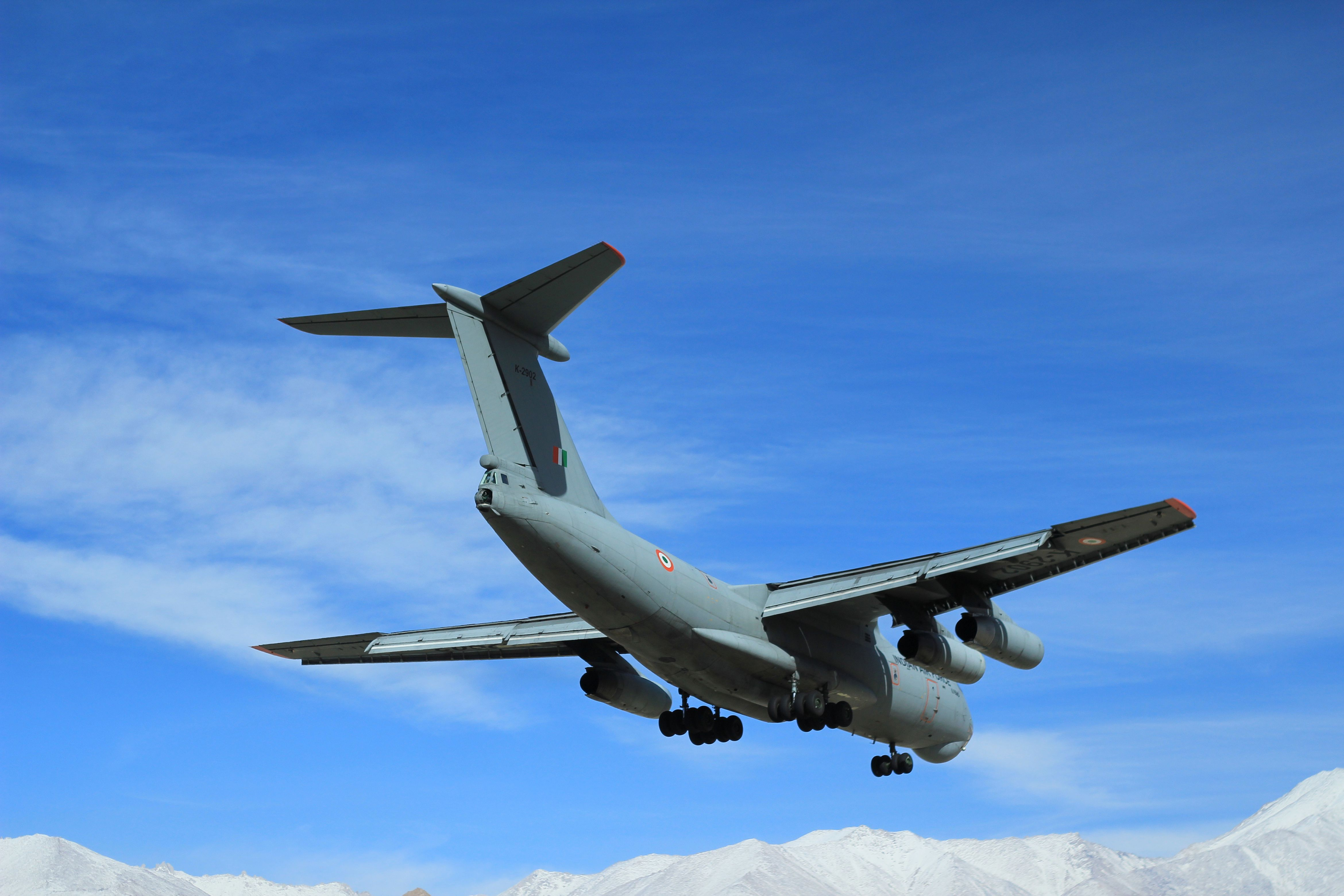 IAF IL-76 MD K2902 at Leh